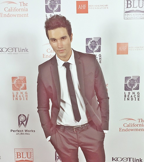 Marlon Blue at Long Beach Film Festival